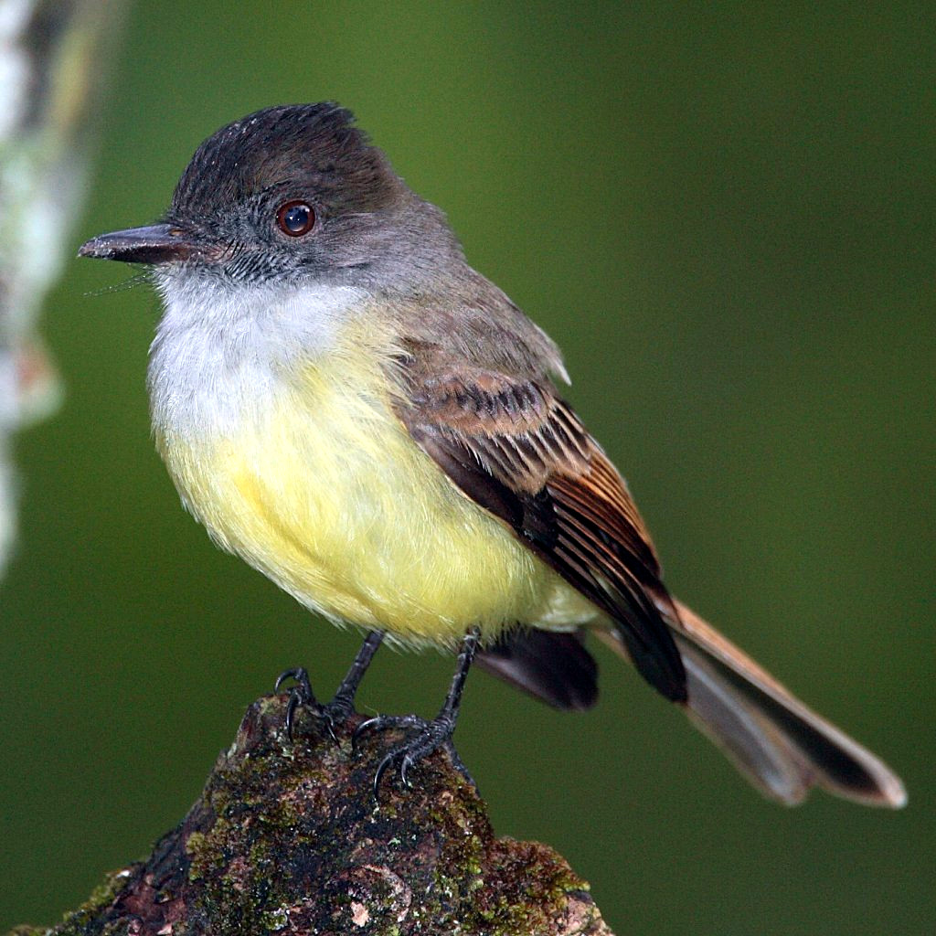 Dusky-capped Flycatcher (Myiarchus tuberculifer) -- Finca Hartmann, Chiriqui, Panama